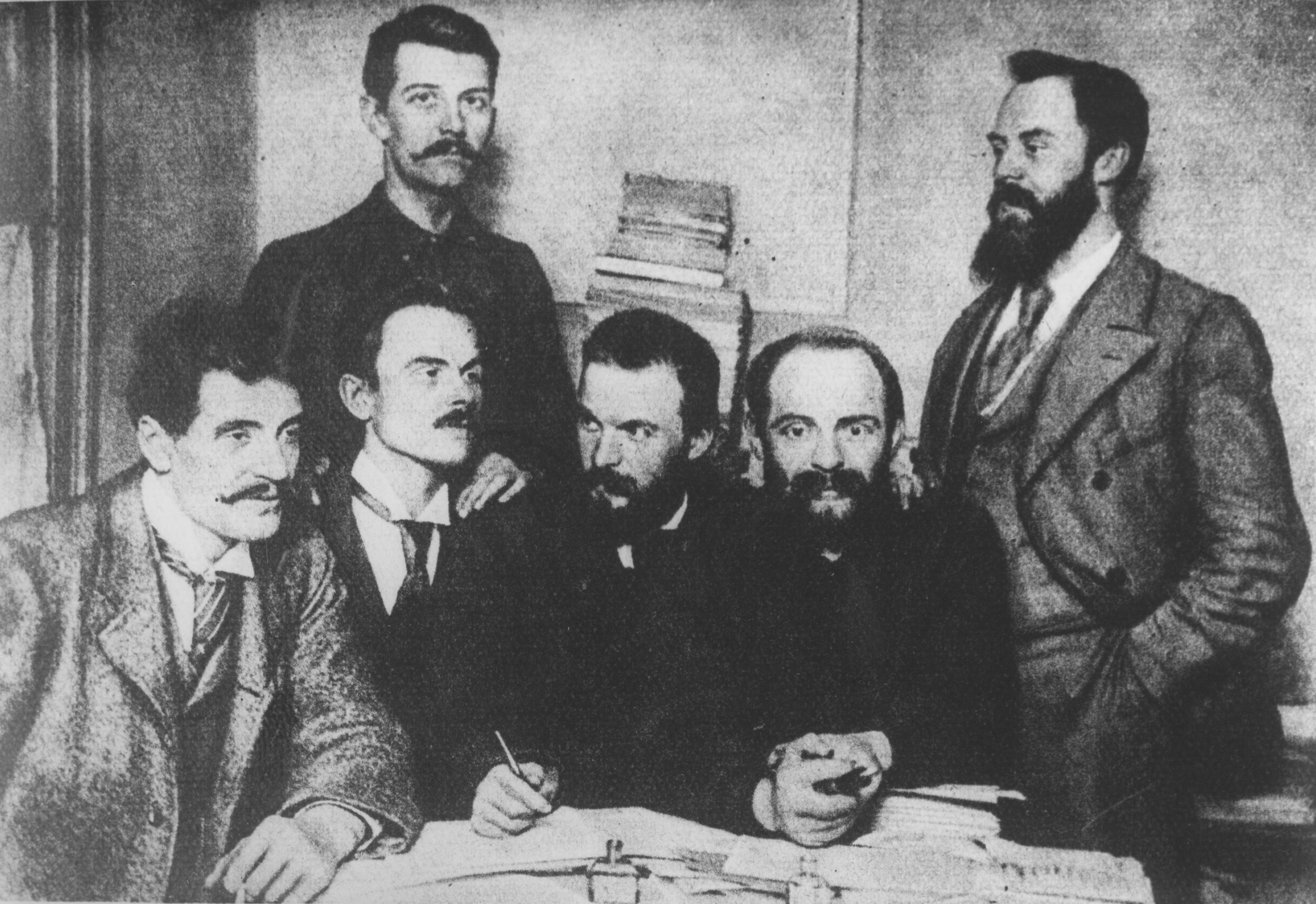 Leaders of Polska Partia Socjalistyczna 1896, London. From left to right - sitting: Ignacy Mościcki, Bolesław Jędrzejowski, Józef Piłsudski, Aleksander Dębski. Standing: Bolesław Miklaszewski, Witold Jodko-Narkiewicz